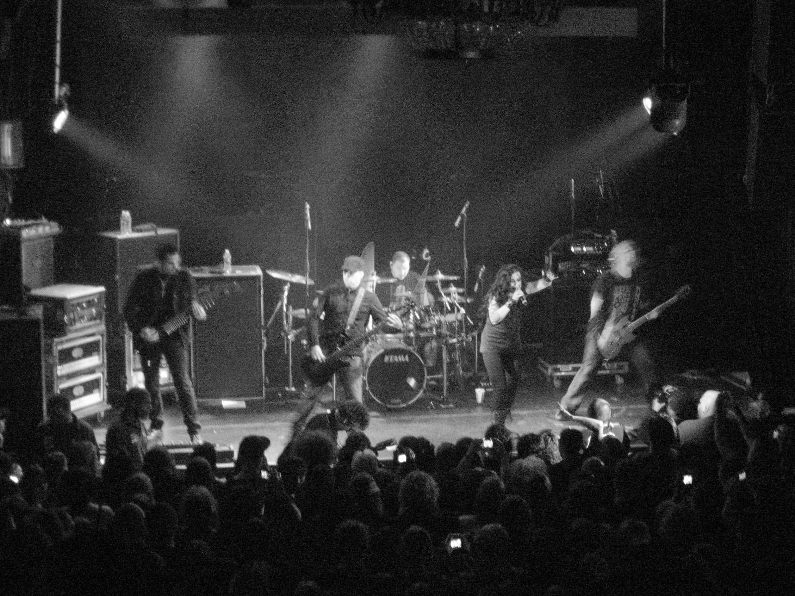 Rock band We Are the Fallen (John LeCompt, Mary O'Brien, Rocky Gray, Carly Smithson, and Ben Moody) on stage at Irving Plaza in New York City on May 7, 2010 performing during their concert tour with Finnish rock band HIM.